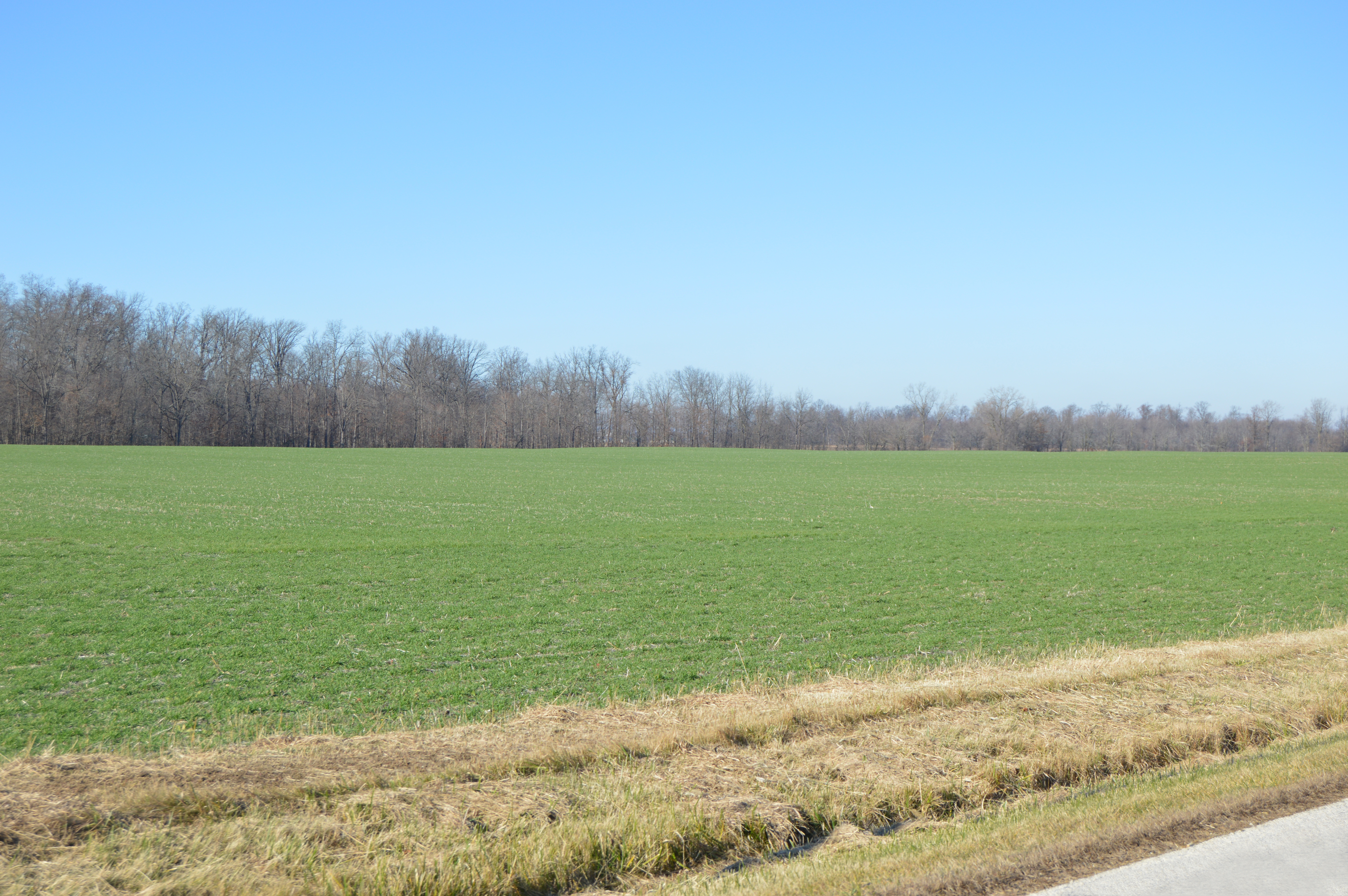 Winter wheat fields on the western side of Wabash Road just north of Frahm Pike in central Liberty Township, Mercer County, Ohio, United States.